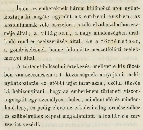 Preface of Danielik János's work